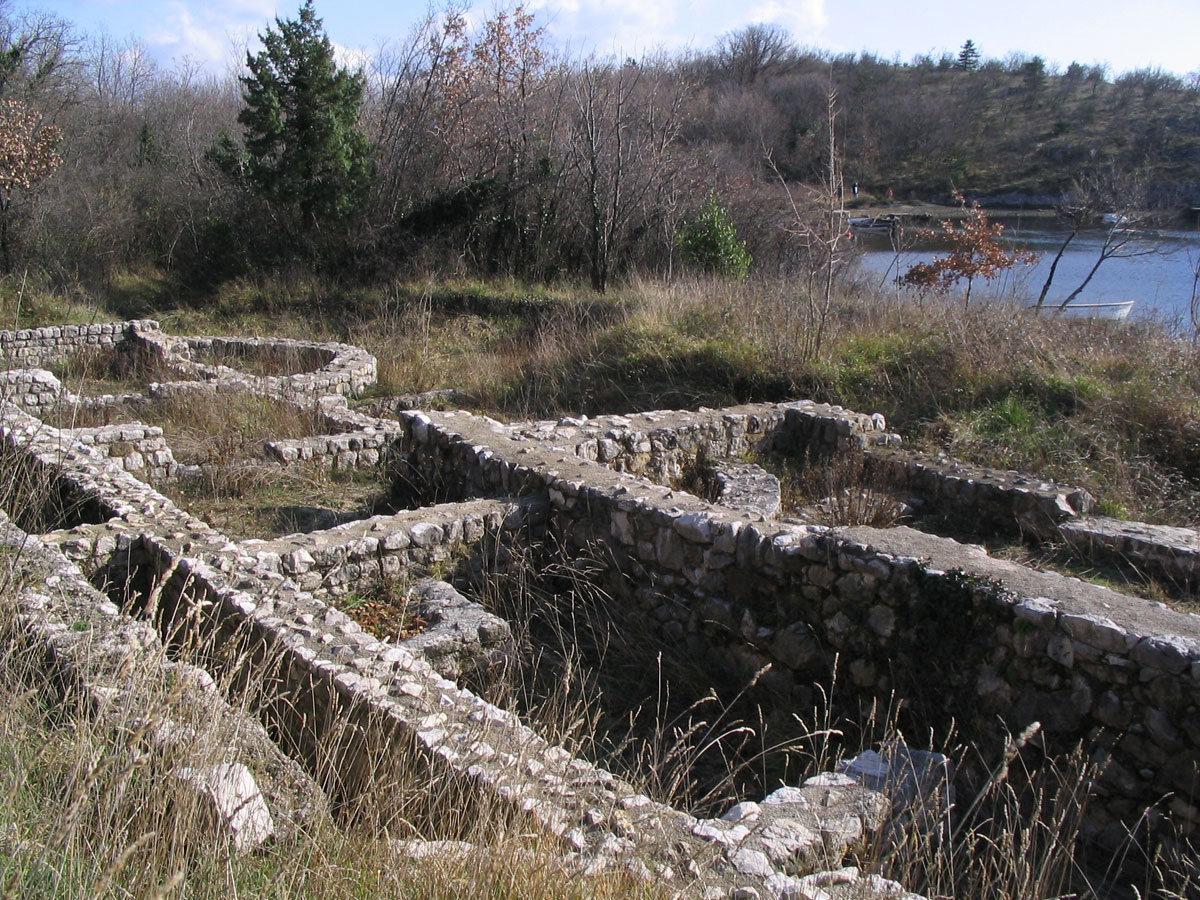 Archaeological site of Lokvišće, near Jadranovo, Croatia